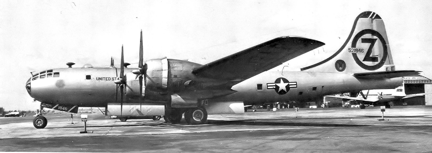 90th Bombardment Wing Boeing B-29-100-BW Superfortress 45-21846. Was converted to an F-13 Photo-Reconnaissance aircraft, re-designated RB-29 in 1948